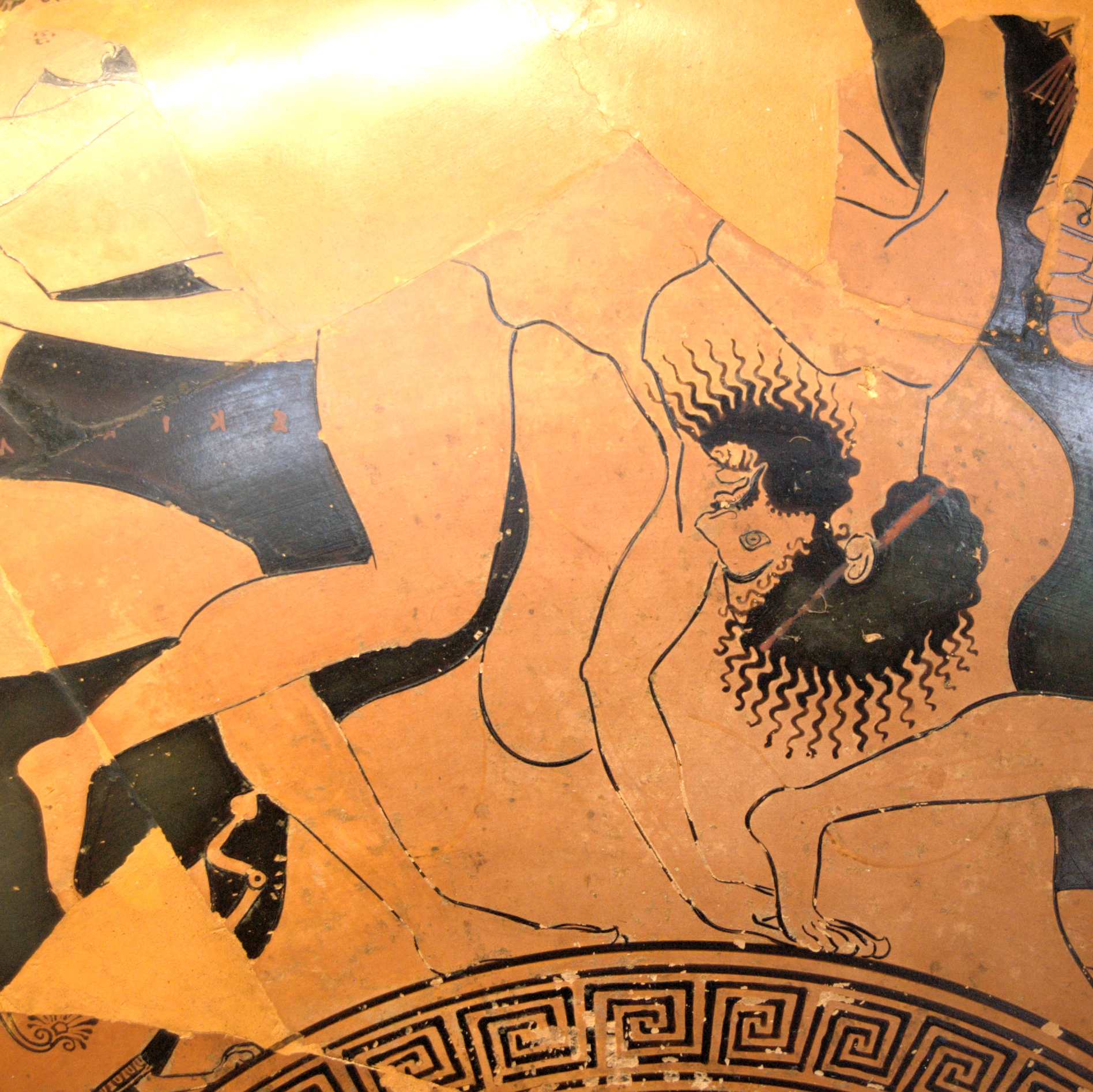 Sciron beaten by Theseus. Detail of the side A from an Attic red-figure cup, 500–490 BC. From Cerveteri (ancient Caere), Latium.